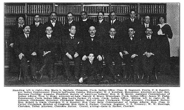 Society of American Indians, Washington, D.C., c.1914 Other information No.